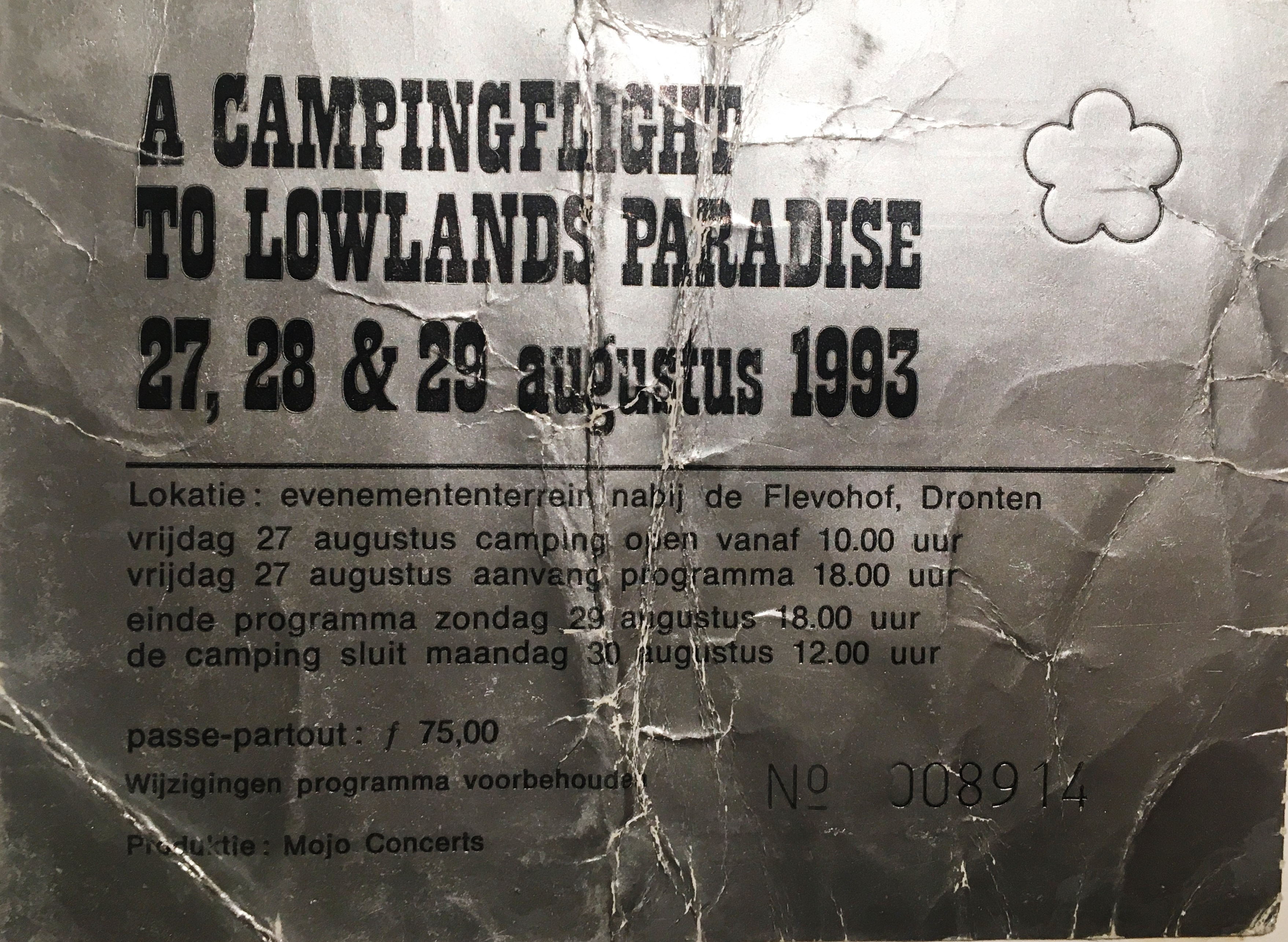 A Lowlands ticket cost converted 34 euros in 1993